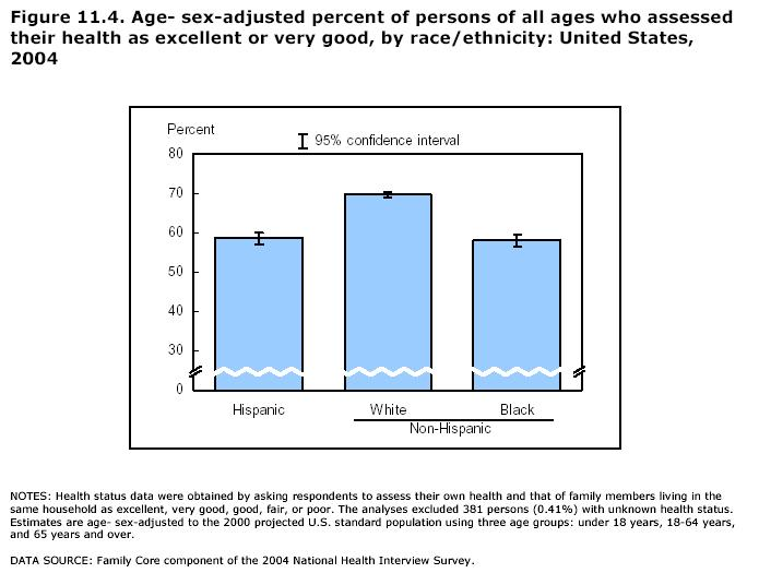 This is a diagram depicting health ratings in US by race.